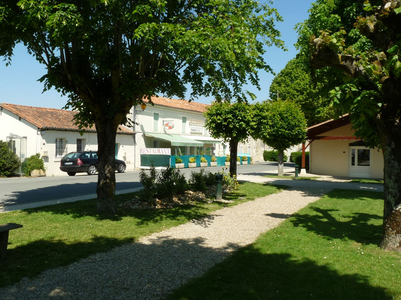 main street at Bonnes, Charente, SW France